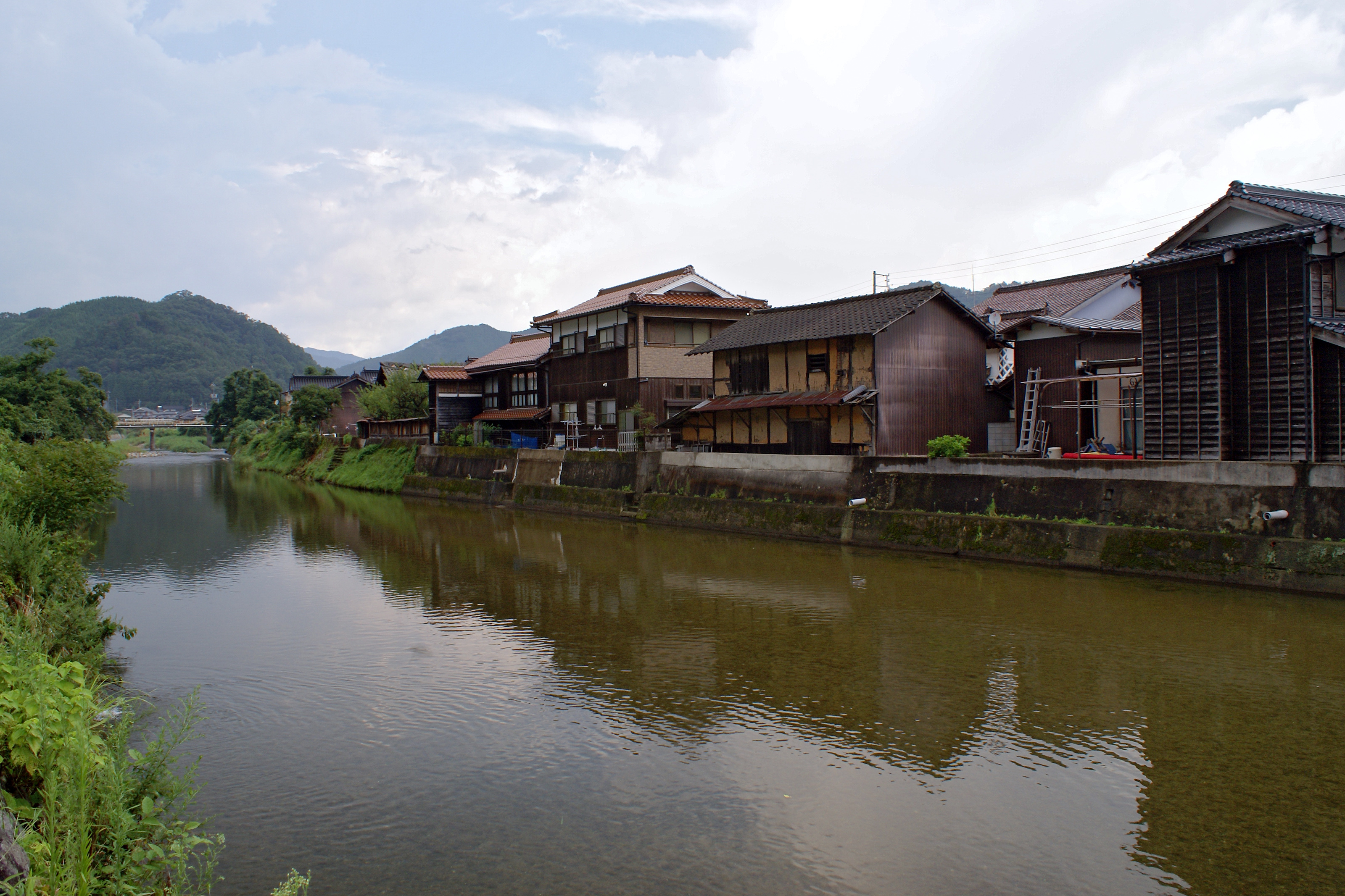 a street scene of Ohara-juku in Mimasaka, Okayama prefecture, Japan